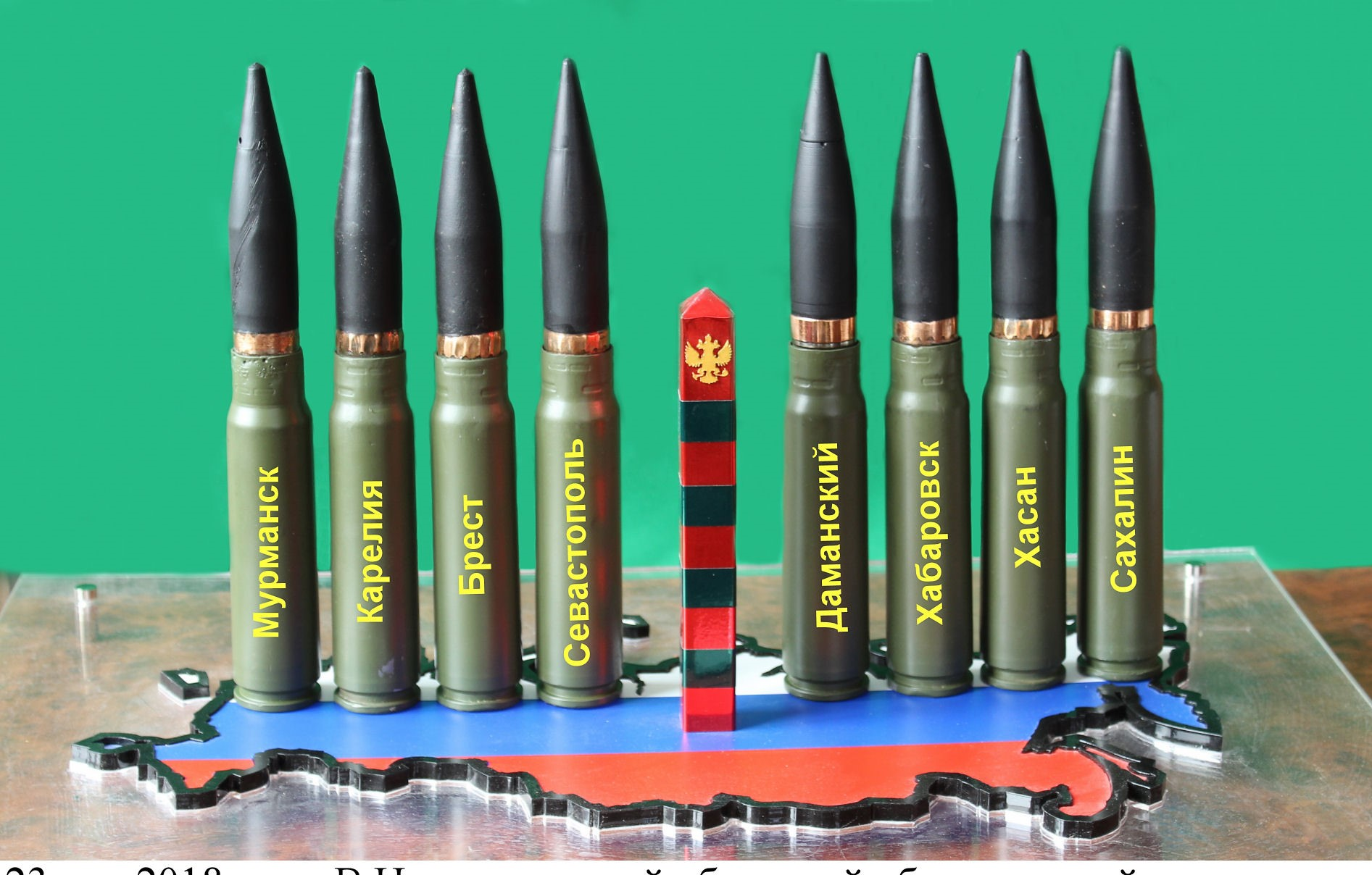 Memory Capsules with the earth of places of feats of frontier guards